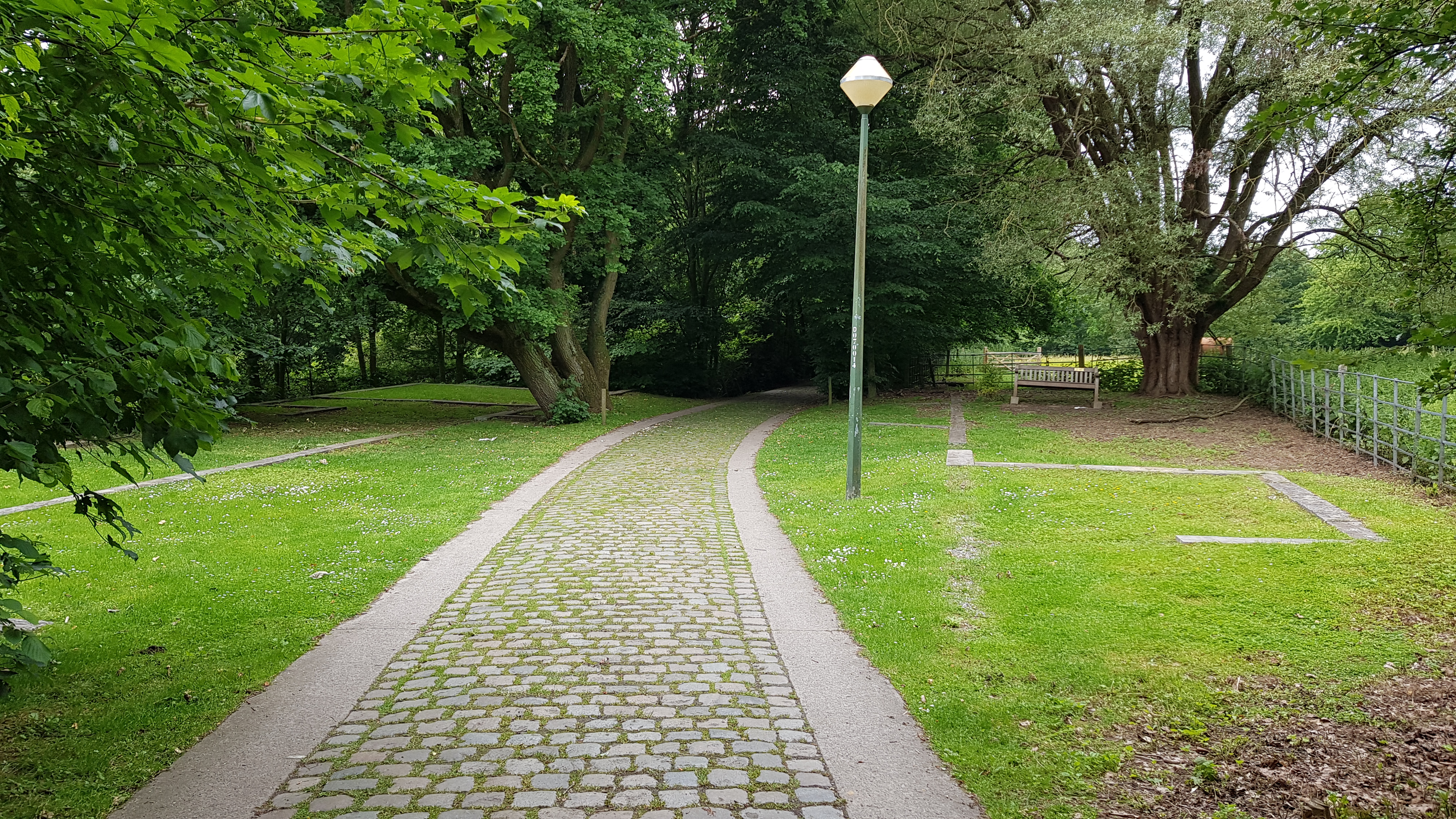 Roman villa of Jette, Belgium